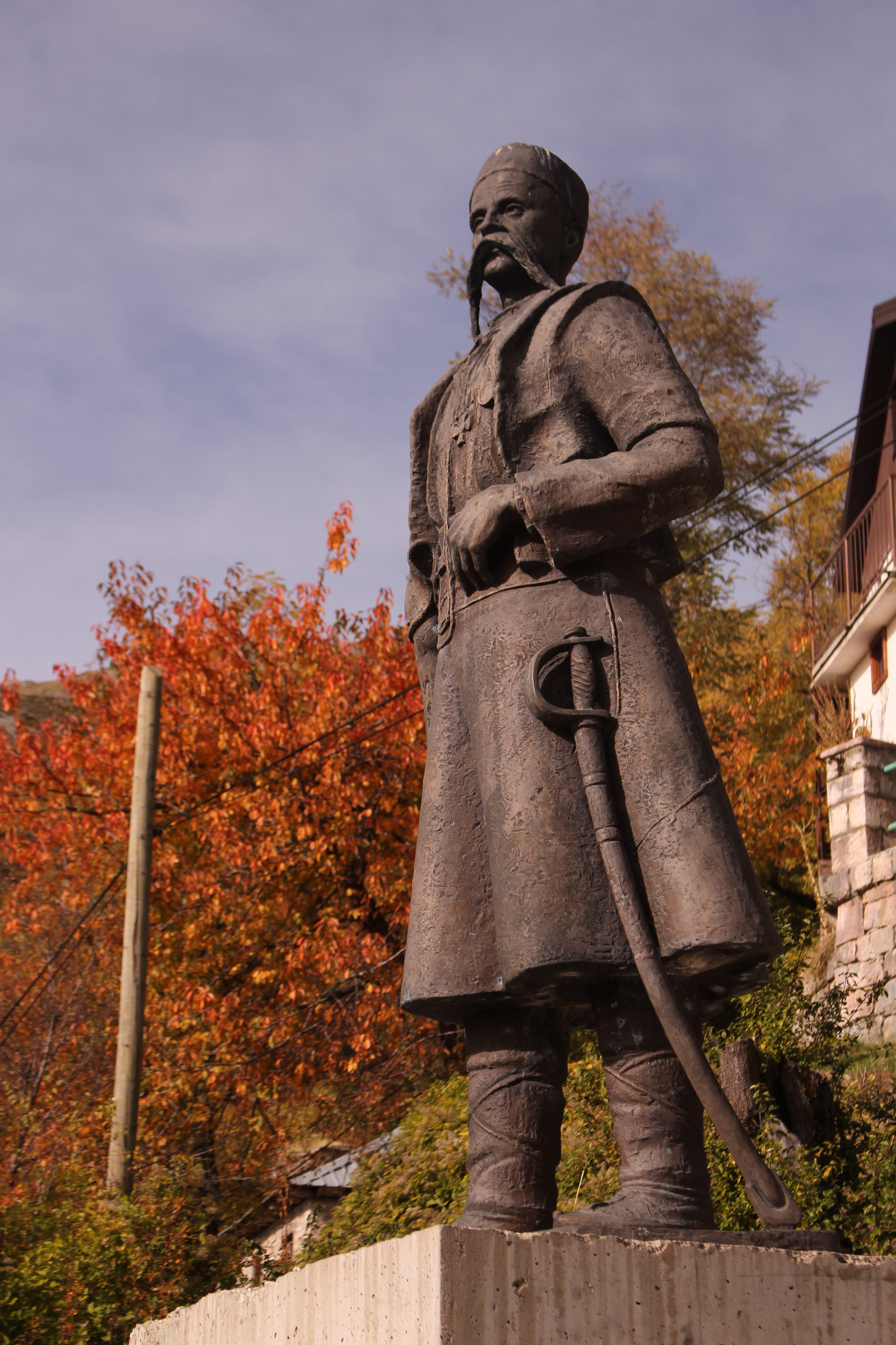 Gjorgjija Pulevski (Galichnik)